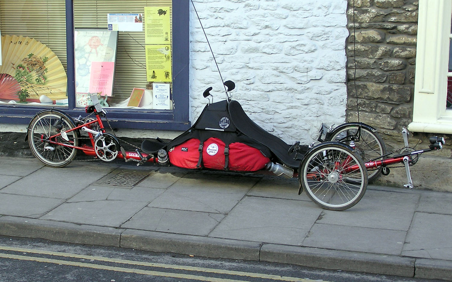 A very unusual tricycle design seen in Malmesbury, Wiltshire, England. Two examples are known to have been built; this one and another residing in the USA.